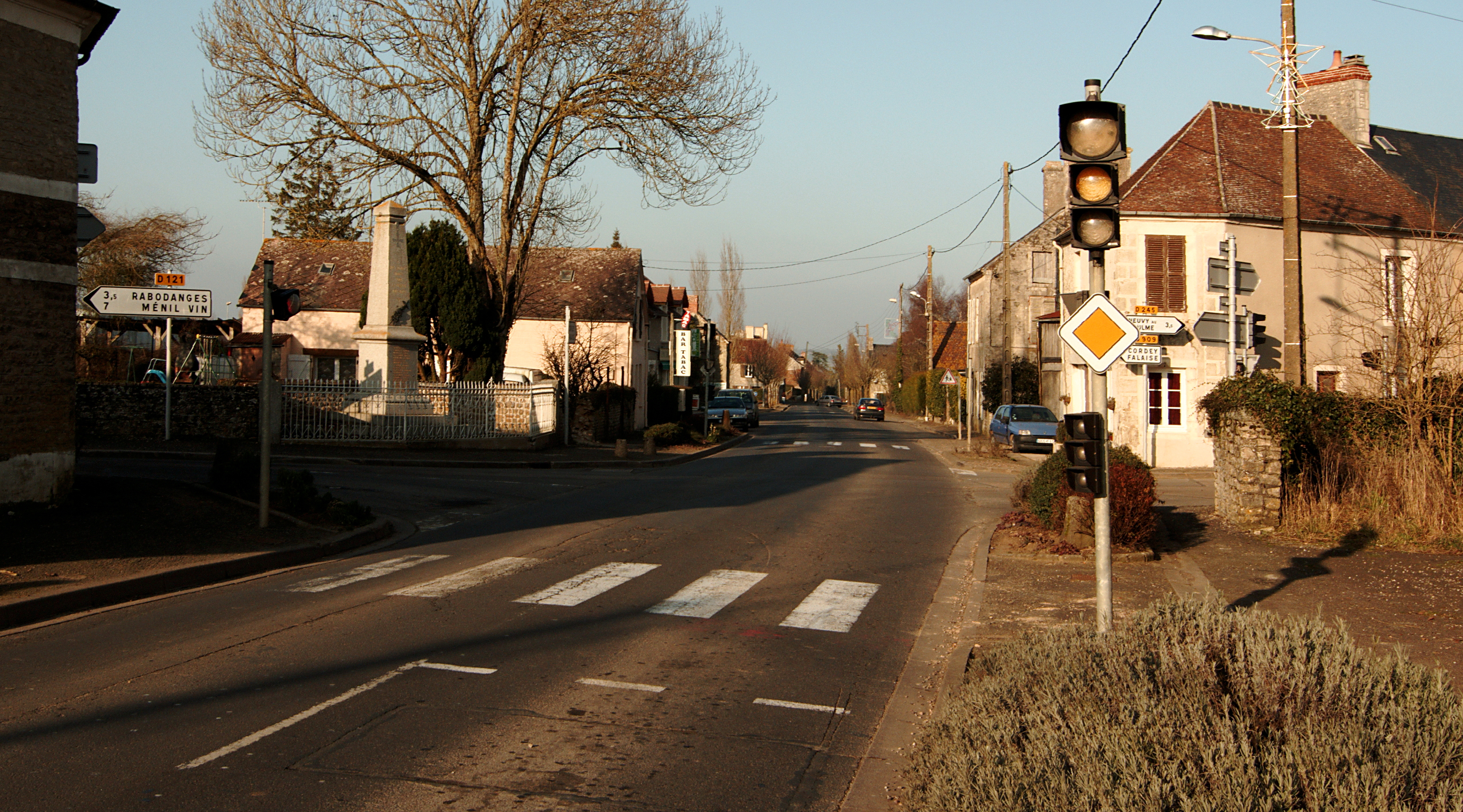 Part of view about Bazoches-au-Houlme village.